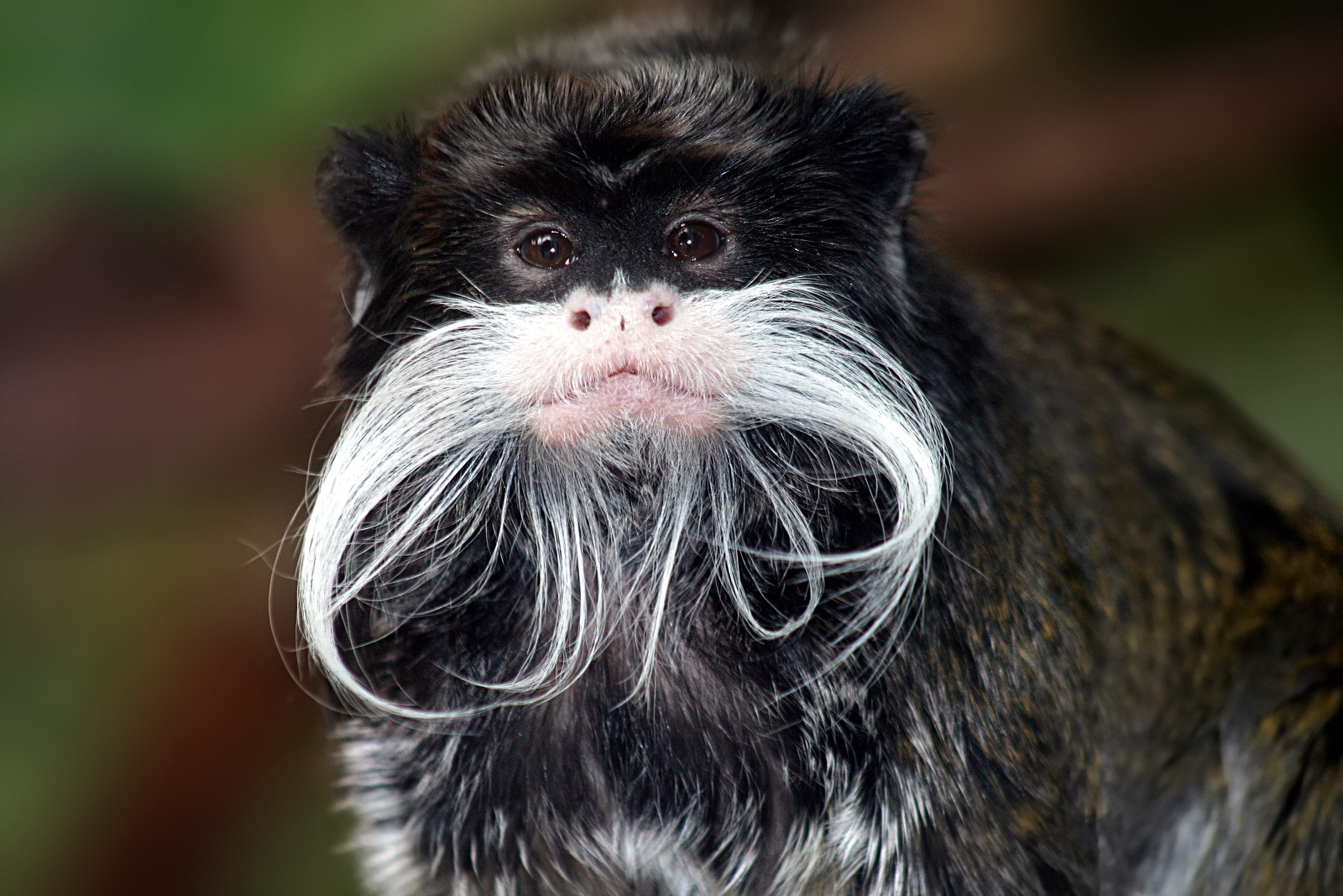 Emperor Tamarin(Saguinus imperator) is a tamarin allegedly named for its similarity with the William II, German Emperor.The name was first intended as a joke, but has become the official scientific name. This tamarin lives in the southwest Amazon Basin, in east Peru, north Bolivia and in the west Brazilian states of Acre and Amazonas. The males and females Emperor Tamarinlook alike. Males are the ones, who are carrying babies on their backs. The image is of female Emperor Tamarin. The image was taken in San Francisco Zoo.